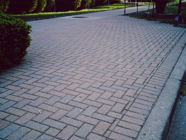 Konrad A. Kociszewski & Darren D. DeWaele, Chicago Concrete Contractors, released by the author into public domain